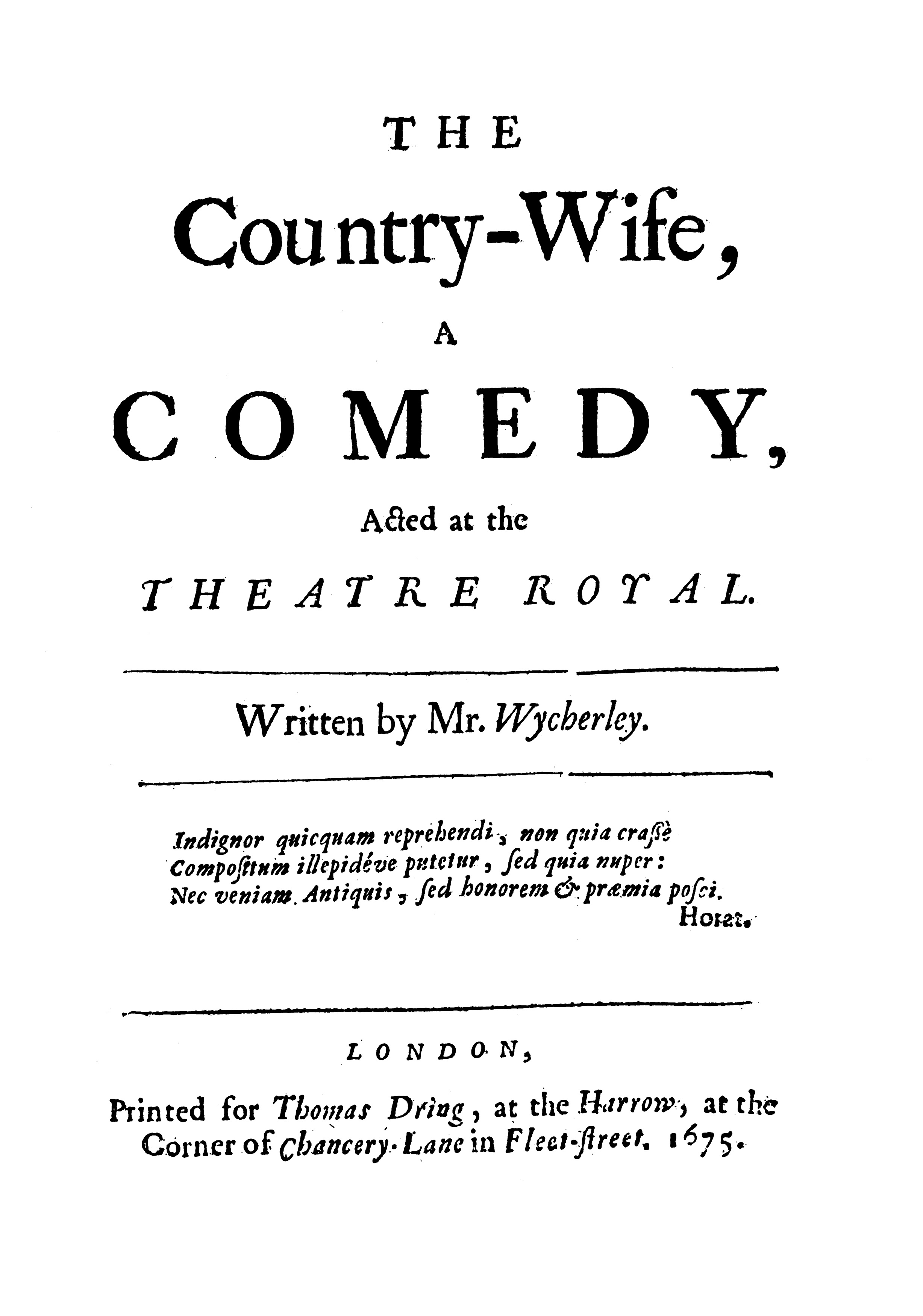 This image was scanned by the uploader from a facsimile edition (Scolar Press, Menston, England, 1970) of the first edition (1675) of William Wycherley's The Country Wife